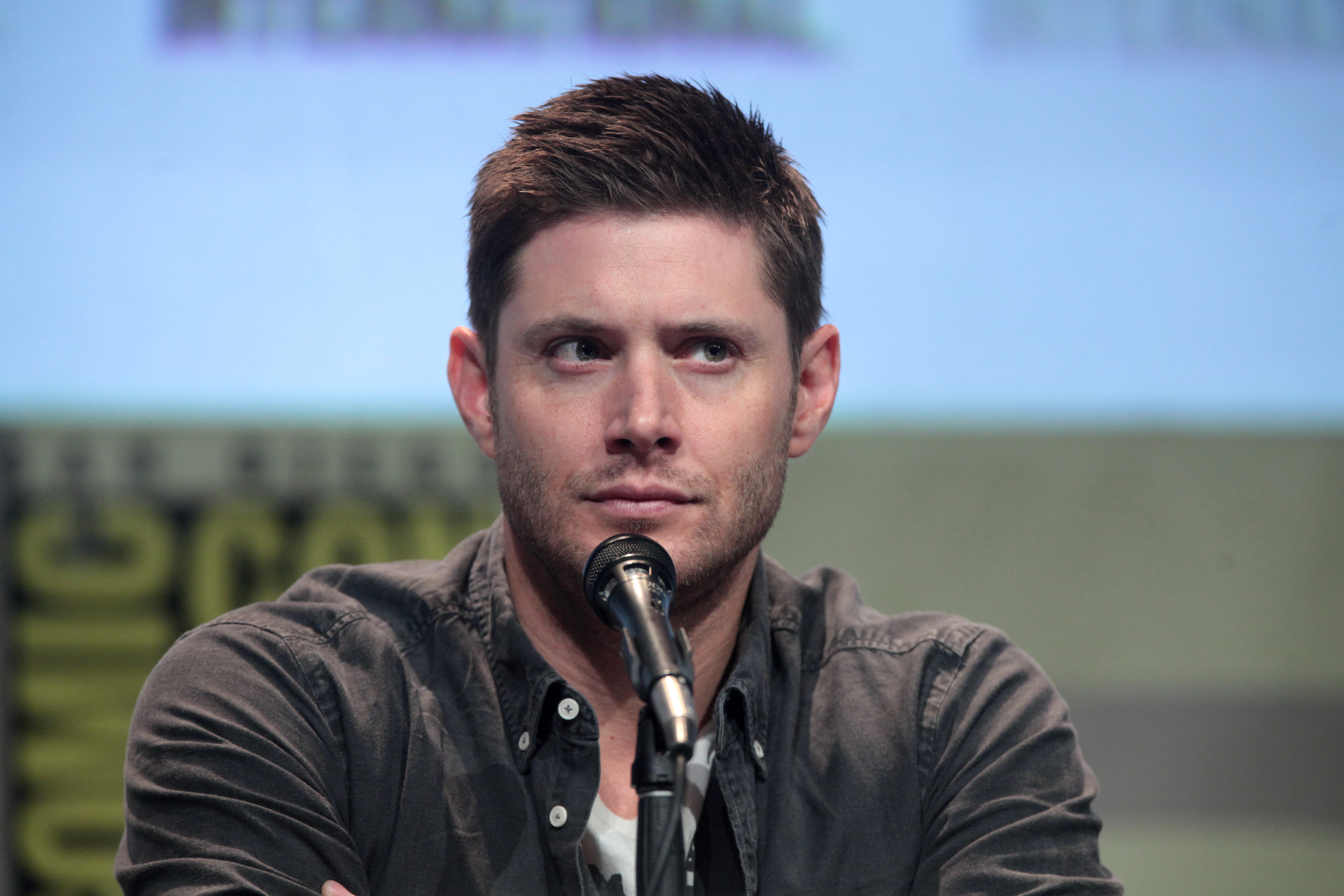 Jensen Ackles speaking at the 2015 San Diego Comic Con International, for "Supernatural", at the San Diego Convention Center in San Diego, California.